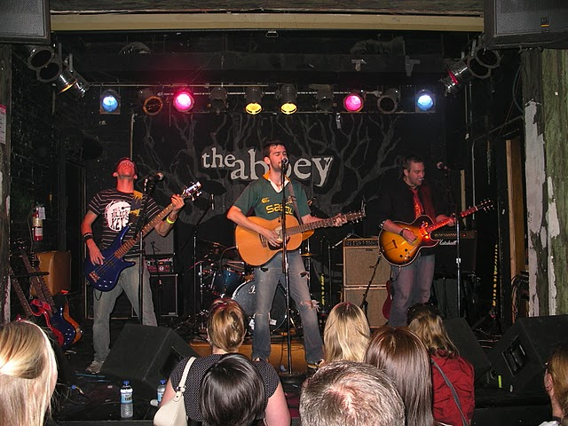 Photo of the band Cobalt & the Hired Guns on stage at the Abbey Pub in Chicago, in October of 2007.